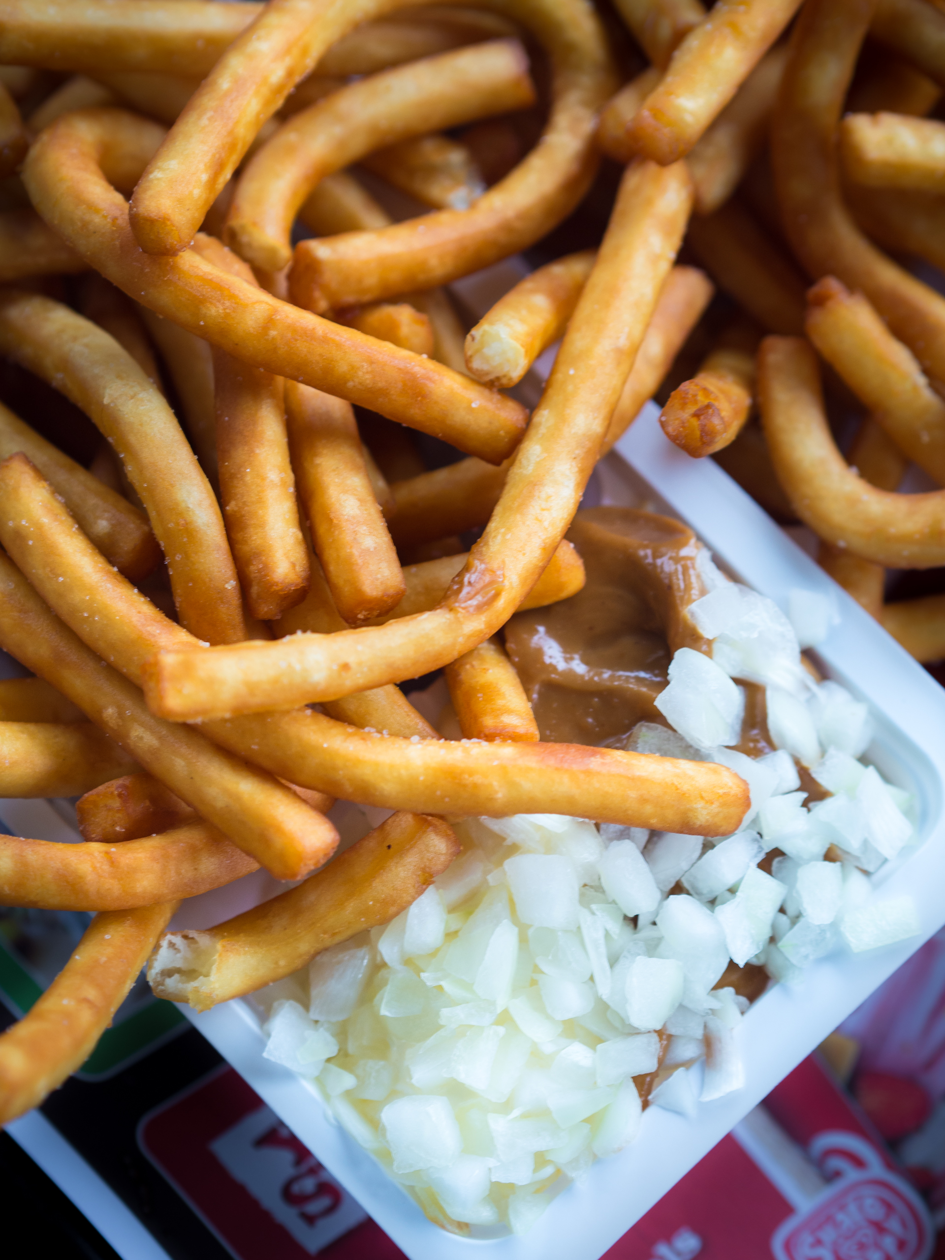 Ras patat is the Dutch brand name used for making "French fries", using a thick dough made from potato flower and water which is pressed through a die and cut to size. It is fried the same way as French fries, in a deep-fryer. Here they are served as a "ras patat oorlog. Oorlog (lit. "war") in this case means that the fries are accompanied by peanut sauce, mayonnaise or "frietsaus" (a substitute mayonnaise) and chopped onion.